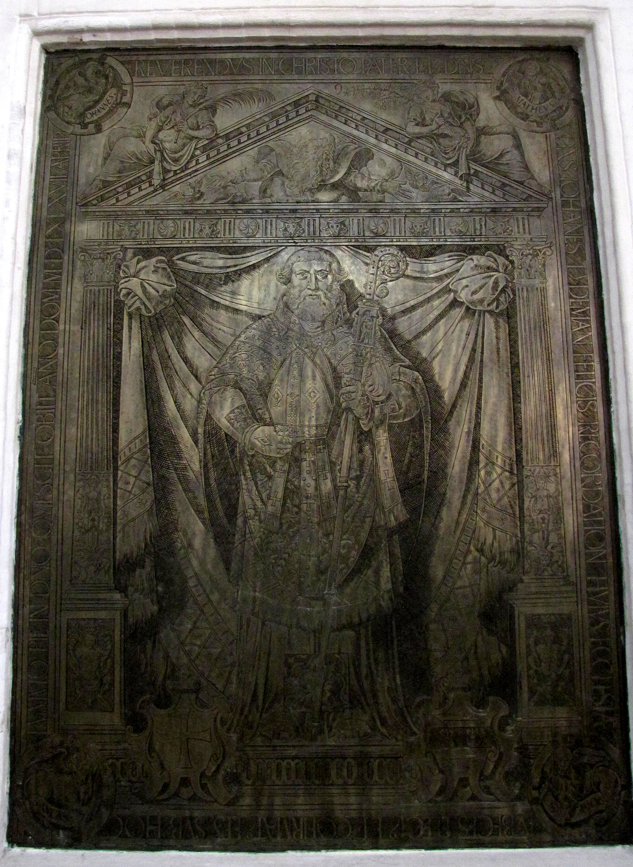 Brass grave marker for Bishop Johannes IX. Tiedemann, Lübeck cathedral